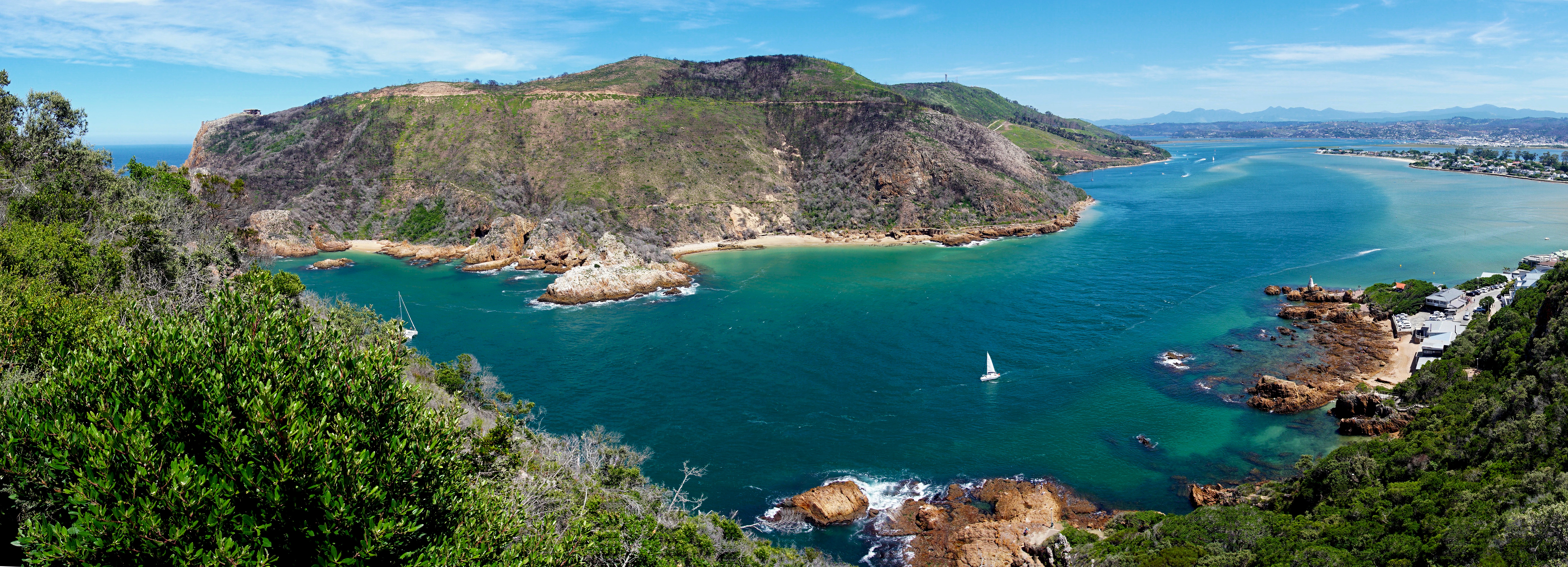 Western Knysna Head as seen from the eastern Knysna Head